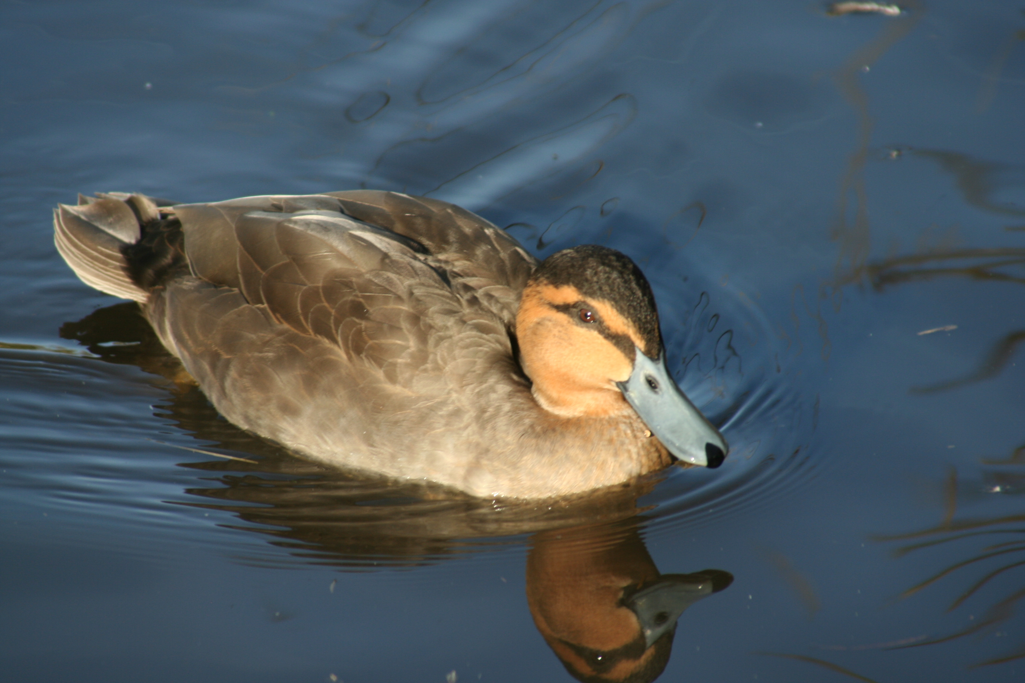 The Philippine Duck (Anas luzonica) Taken by Duncan Wright